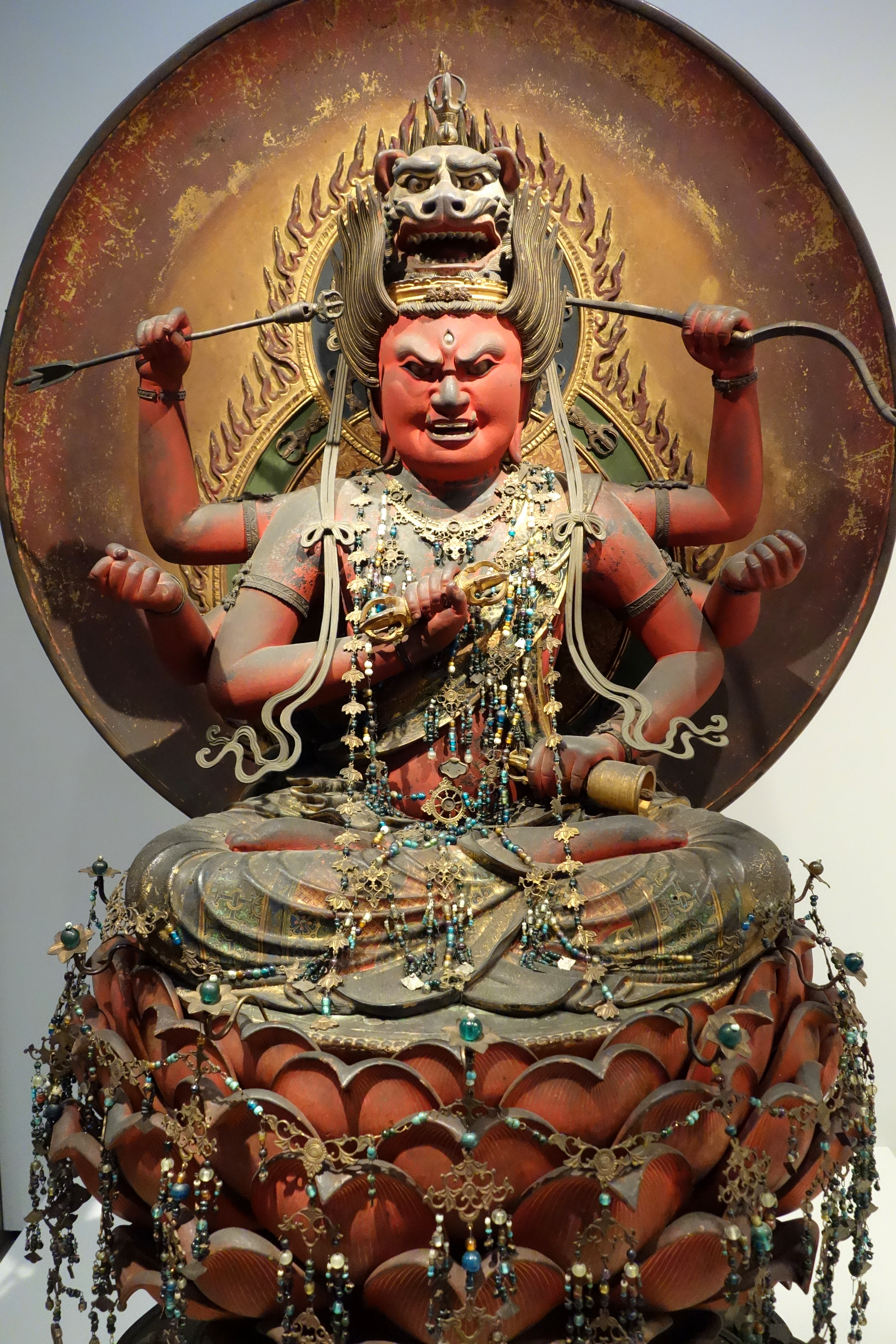 Exhibit in the Tokyo National Museum, Tokyo, Japan. This artwork is old enough so that it is in the public domain.